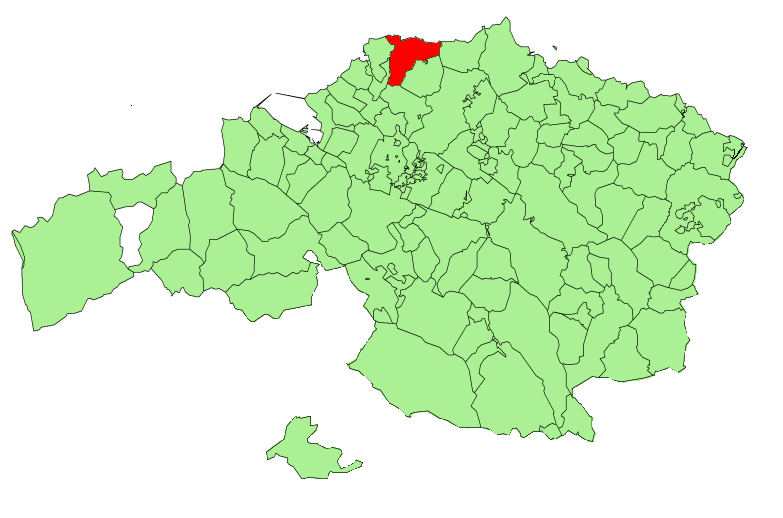 Lemoiz municipality in the province of Biscay